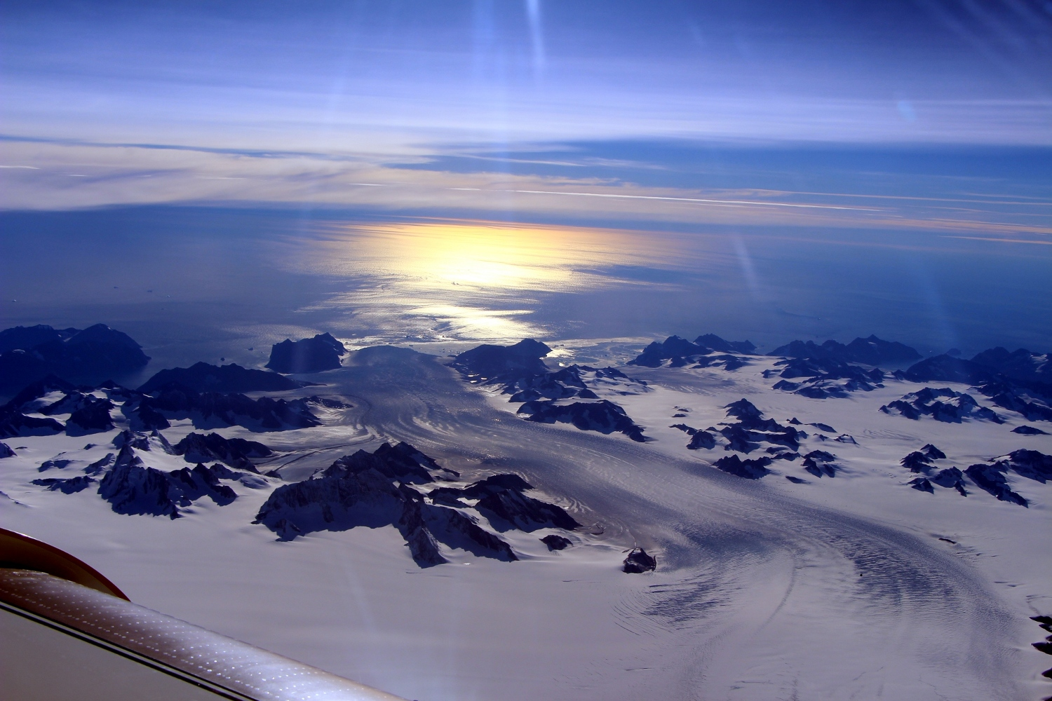 NASA's IceBridge, an airborne survey of polar ice, flew over the Helheim/Kangerdlugssuaq region of Greenland on Sept. 11, 2016. This photograph from the flight captures Greenland's Steenstrup Glacier, with the midmorning sun glinting off of the Denmark Strait in the background. IceBridge completed the final flight of the summer campaign to observe the impact of the summer melt season on the ice sheet on Sept. 16. The IceBridge flights, which began on Aug. 27, are mostly repeats of lines that the team flew in early May, so that scientists can observe changes in ice elevation between the spring and late summer. For this short, end-of-summer campaign, the IceBridge scientists flew aboard an HU-25A Guardian aircraft from NASA's Langley Research Center in Hampton, Virginia. Credit: NASA/John Sonntag NASA image use policy. NASA Goddard Space Flight Center enables NASA’s mission through four scientific endeavors: Earth Science, Heliophysics, Solar System Exploration, and Astrophysics. Goddard plays a leading role in NASA’s accomplishments by contributing compelling scientific knowledge to advance the Agency’s mission. Follow us on Twitter Like us on Facebook Find us on Instagram